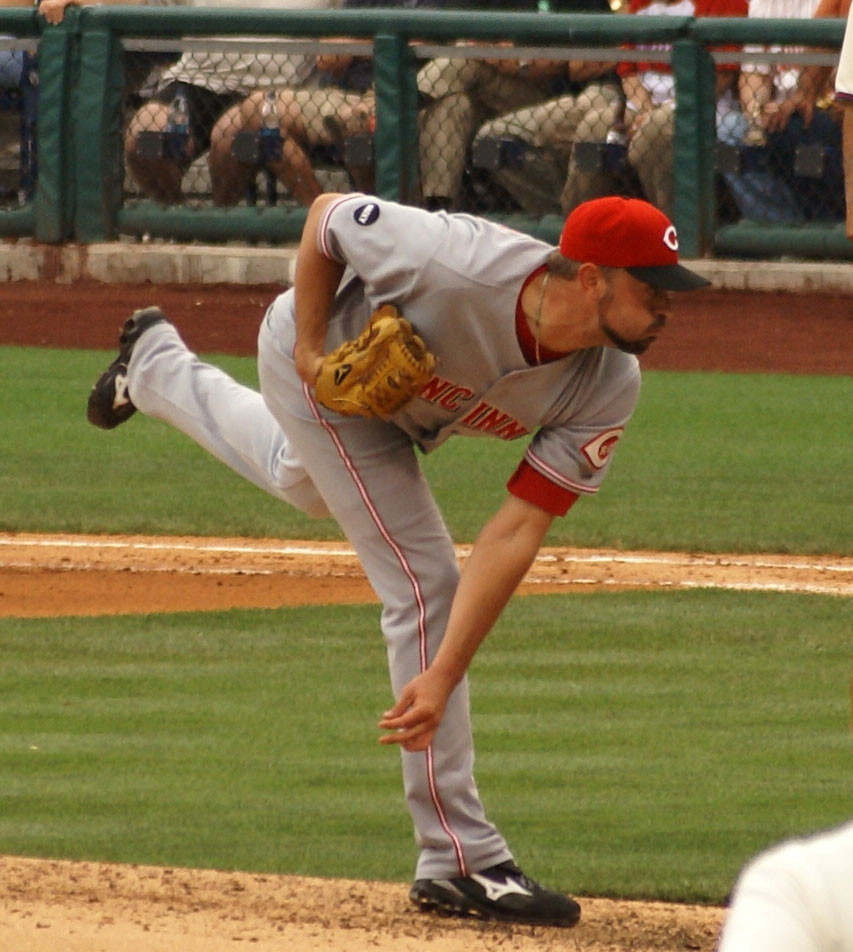 Description Jeremy Affeldt Date06/04/08SourceI created this work entirely by myself.AuthorBlevine37 (talk) 03:21, 11 June 2008 . . Blevine37 . . 853×952 (175 KB) Jeremy Affeldt